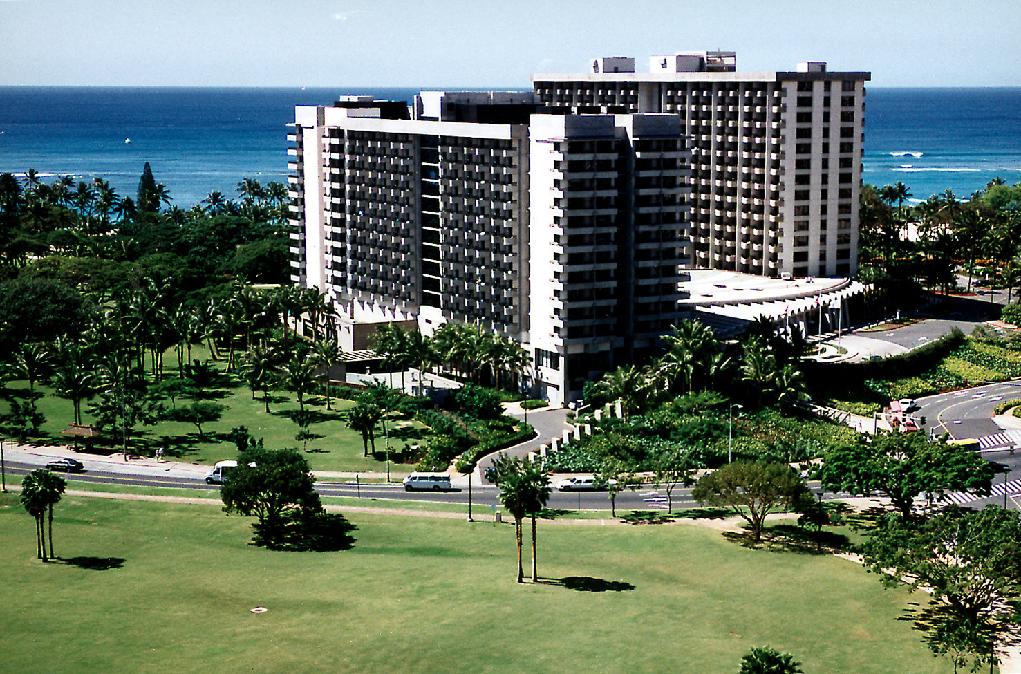 Aerial view of the twin towers of Hale Koa Hotel, Waikiki, Honolulu, Hawaii, USA.